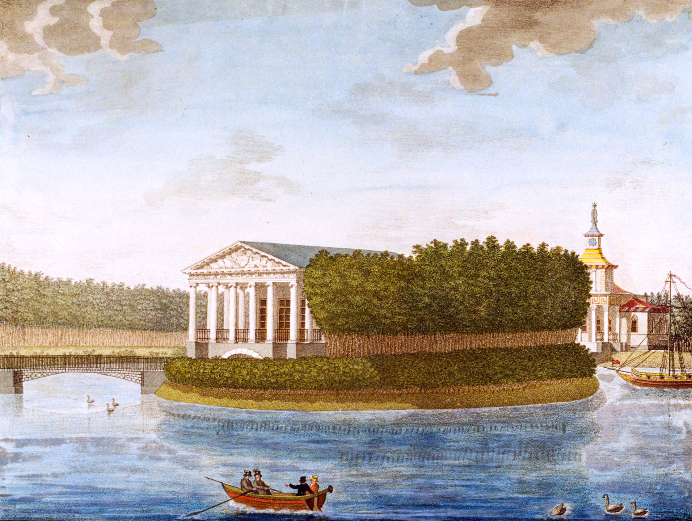 Chinese Pavilion in Gruzino. Lithography from 1822.